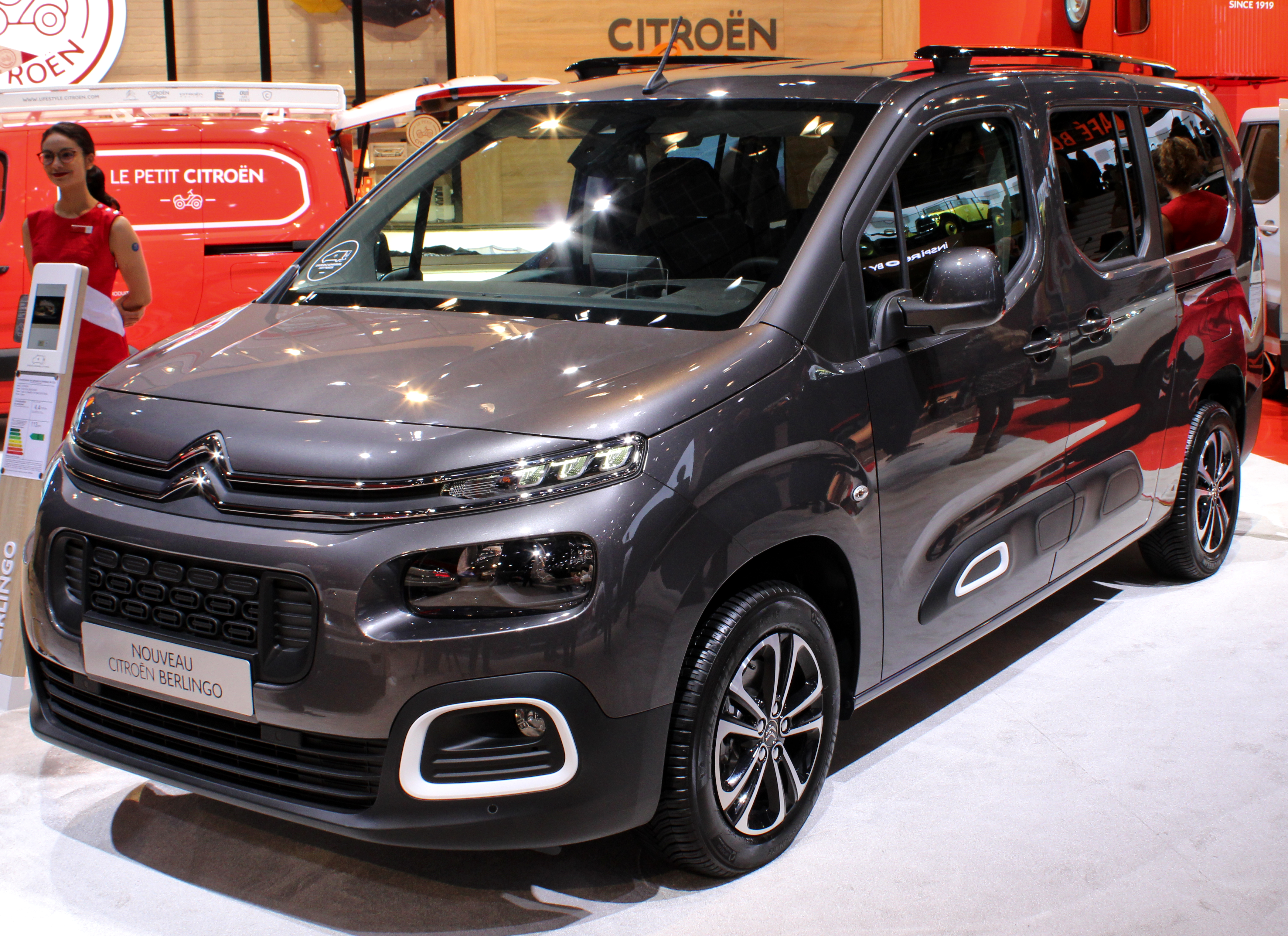 Citroen Berlingo XL at Paris Motor Show 2018